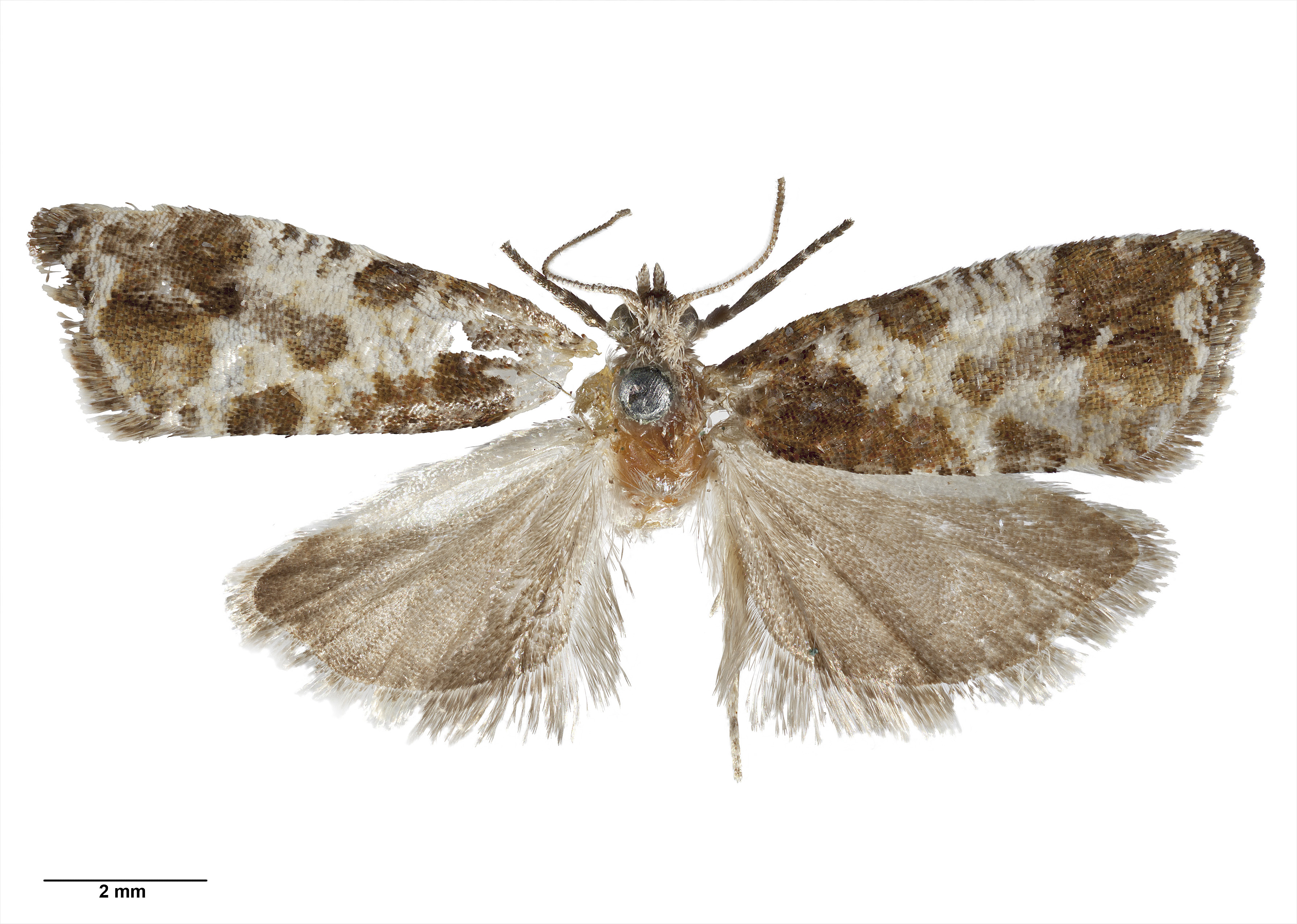 Pyrgotis calligypsa (Meyrick, 1926) holotype specimen held at Auckland Museum licensed under CC BY 4.0.